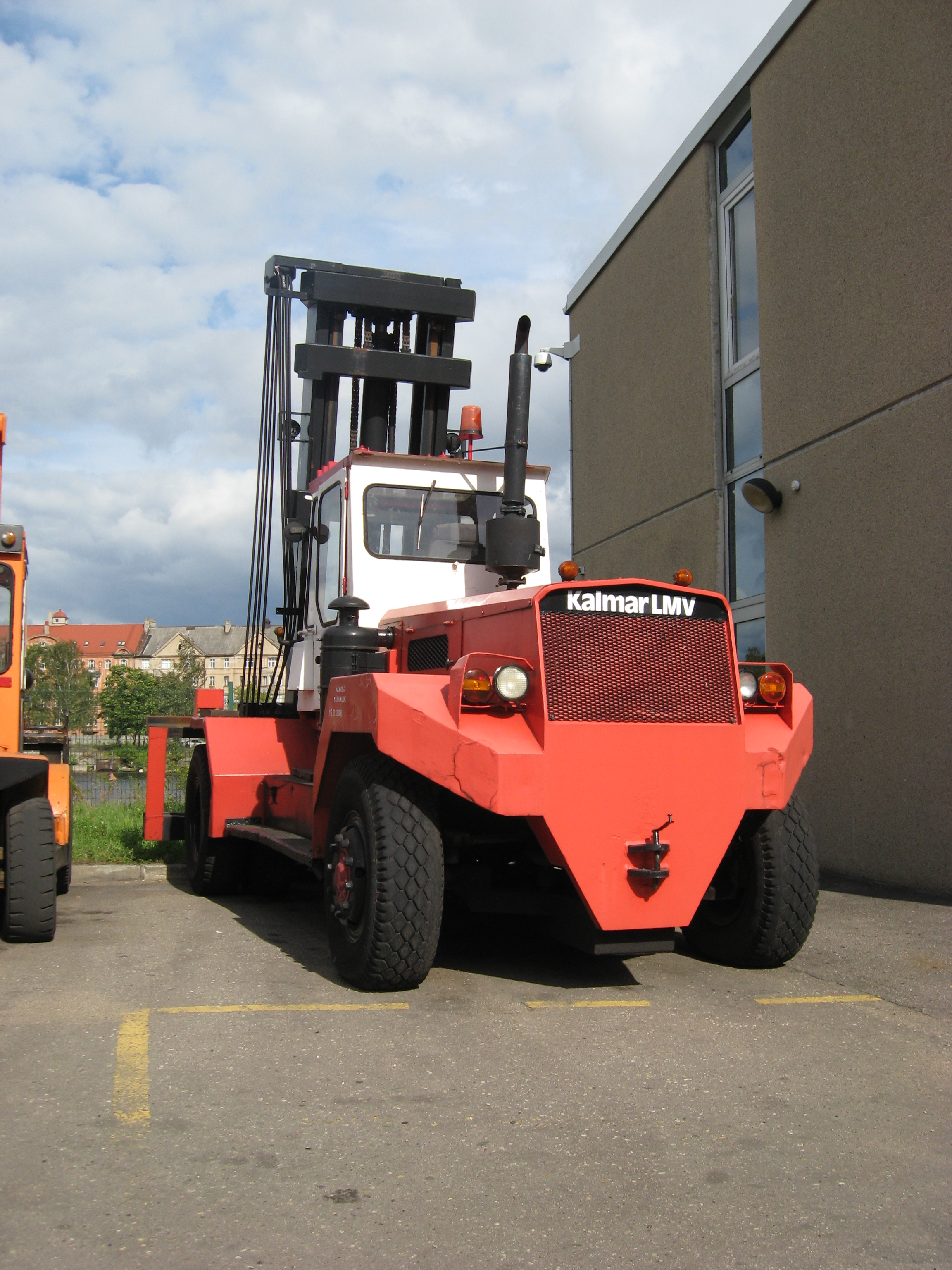 Kalmar LMV found in the Riga port.